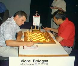 Viorel Bologan - Viswanathan Anand, Chess Days 2003 at Dortmund